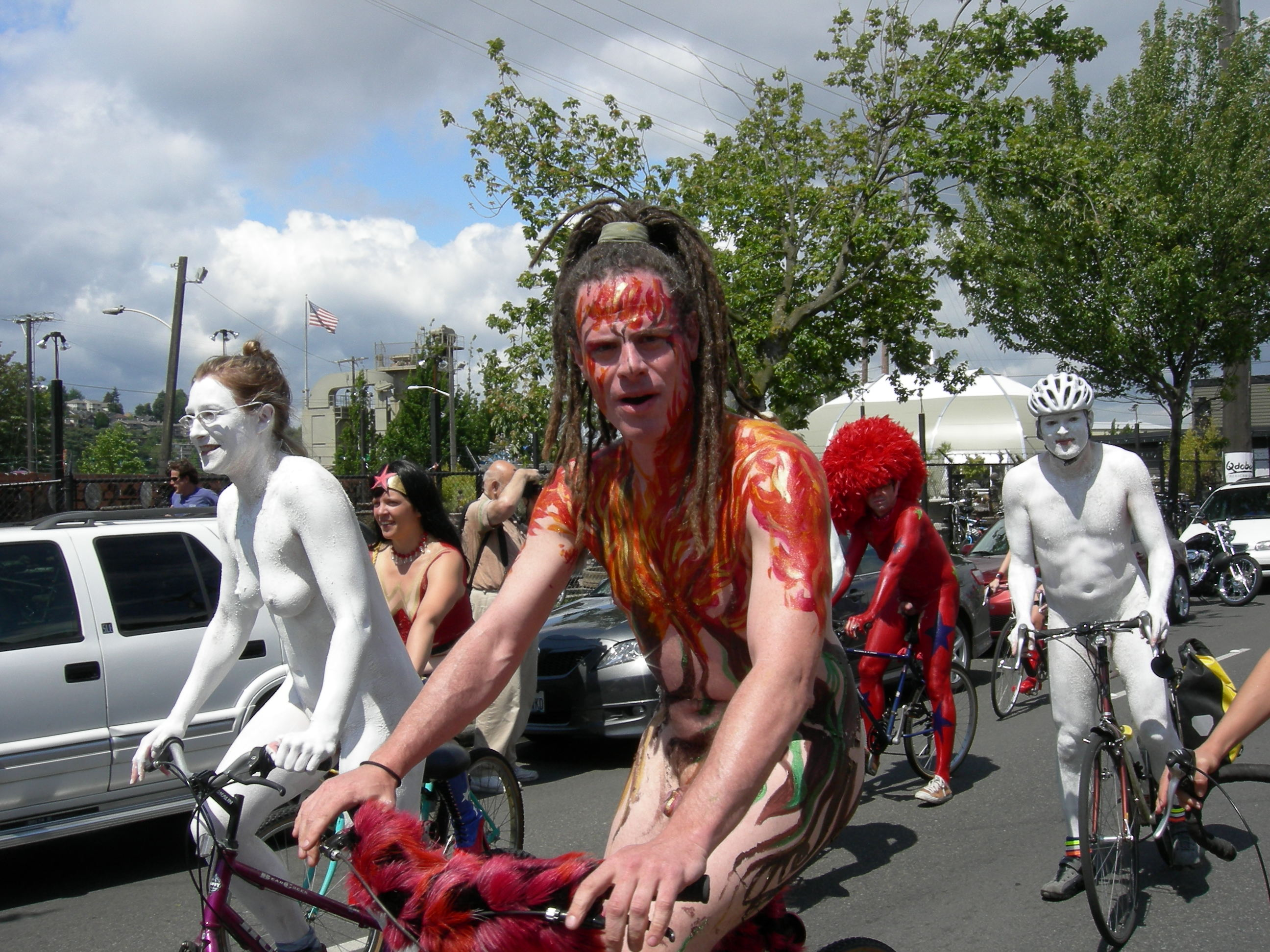 Body-painted naked cyclists, a longstanding tradition in the Summer Solstice Parade and Pageant, Fremont Fair, Seattle, Washington.